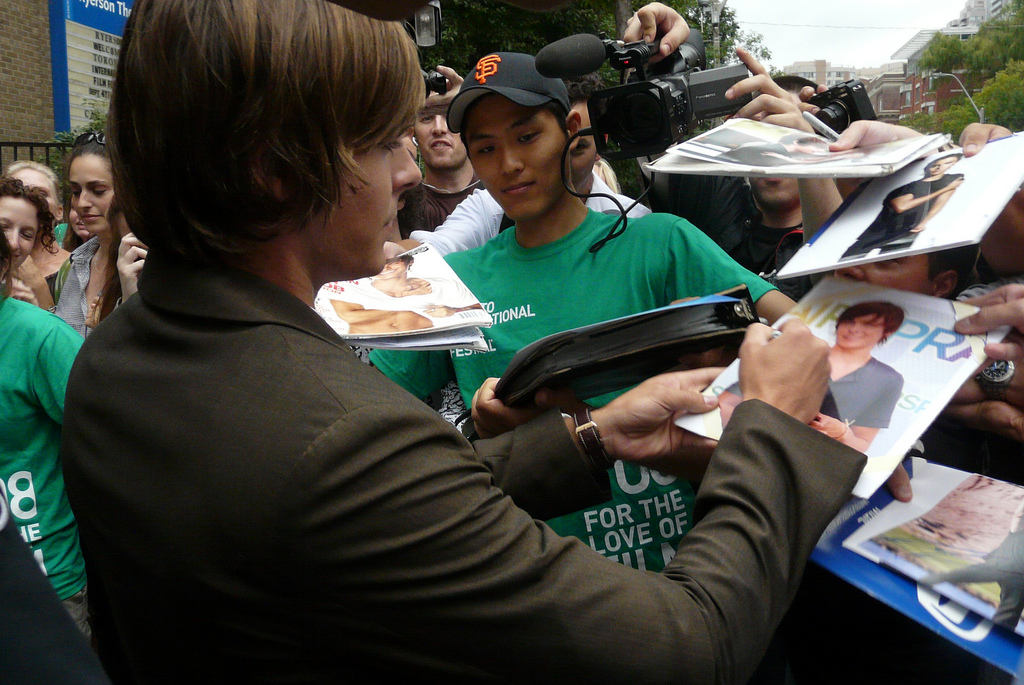 Zac Efron Arrives at Tiff '08 Premiere of Me and Orson Welles